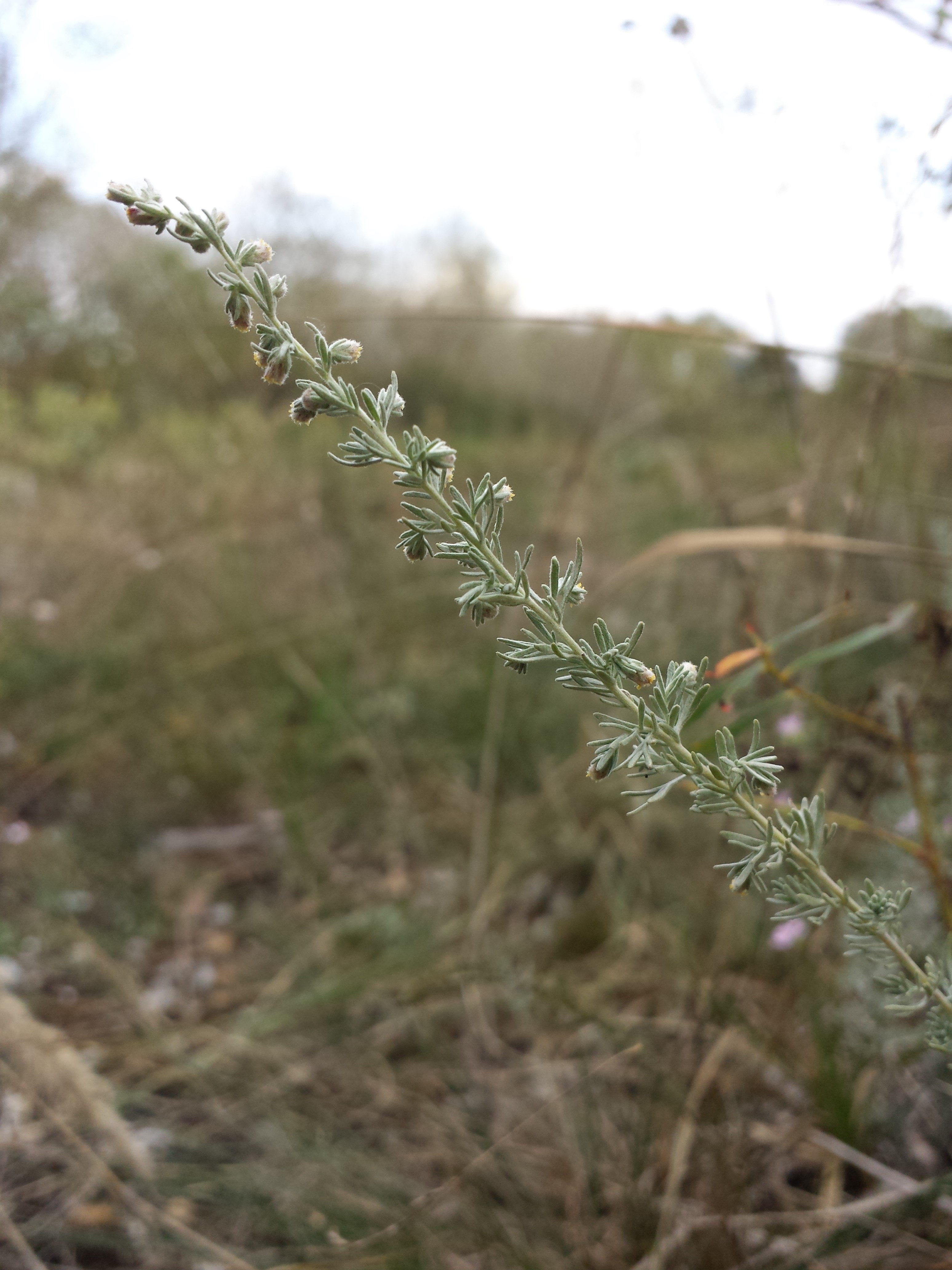 Habitus Taxonym: Artemisia repens (ss Fischer et al. EfÖLS 2008 ISBN 978-3-85474-187-9) Location: abandoned marshalling-yard Breitenlee, Vienna-Donaustadt - ca. 160 m a.s.l. Habitat: ballast/dry grassland